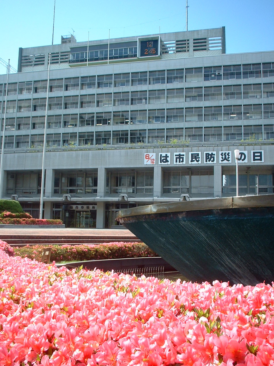 Image of Sendai City Hall in Aoba-ku, Sendai, Miyagi Prefecture, Japan. I took this photograph on June 12, 2005. This image is multi licensed under the GNU Free Documentation License and the Creative Commons Attribution-ShareAlike 2.0 license.